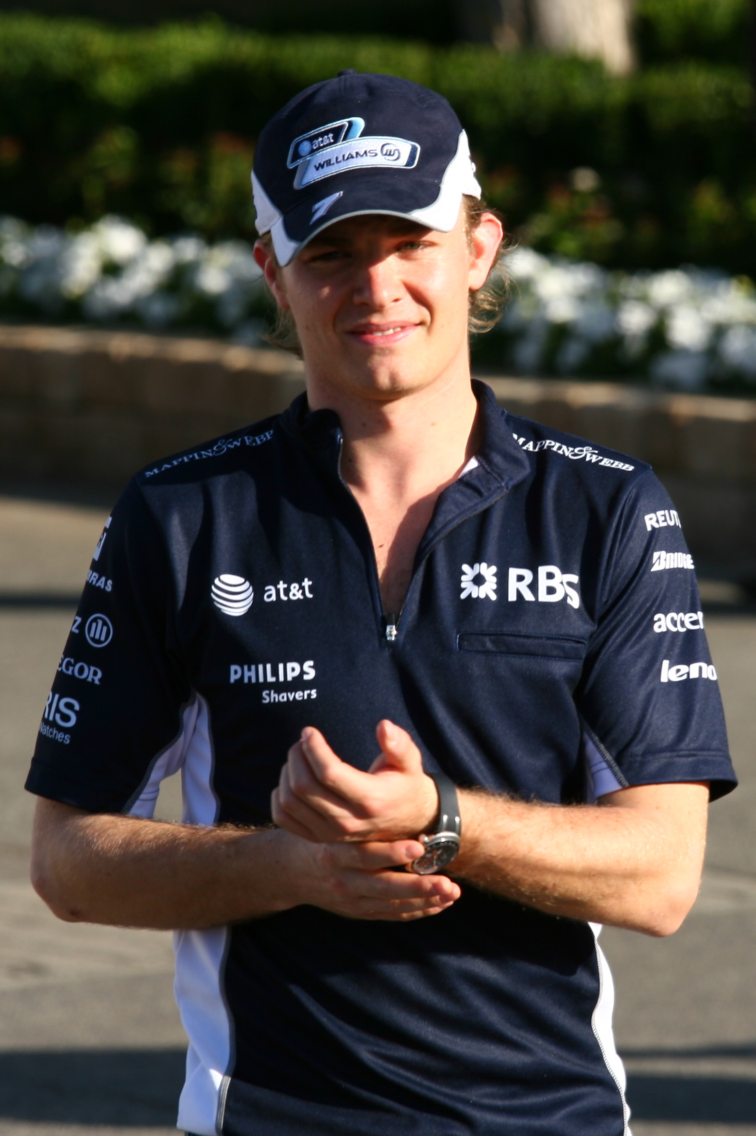 Nico Rosberg at the 2008 Australian Grand Prix.